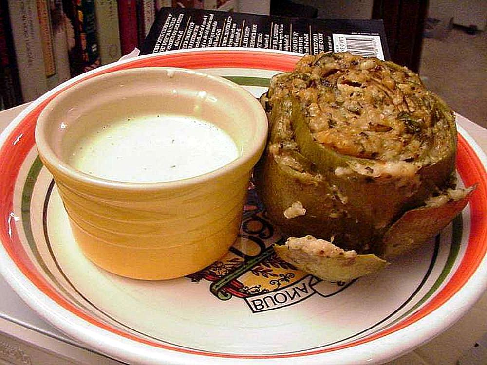 Image title: Stuffed artichoke Image from Public domain images website